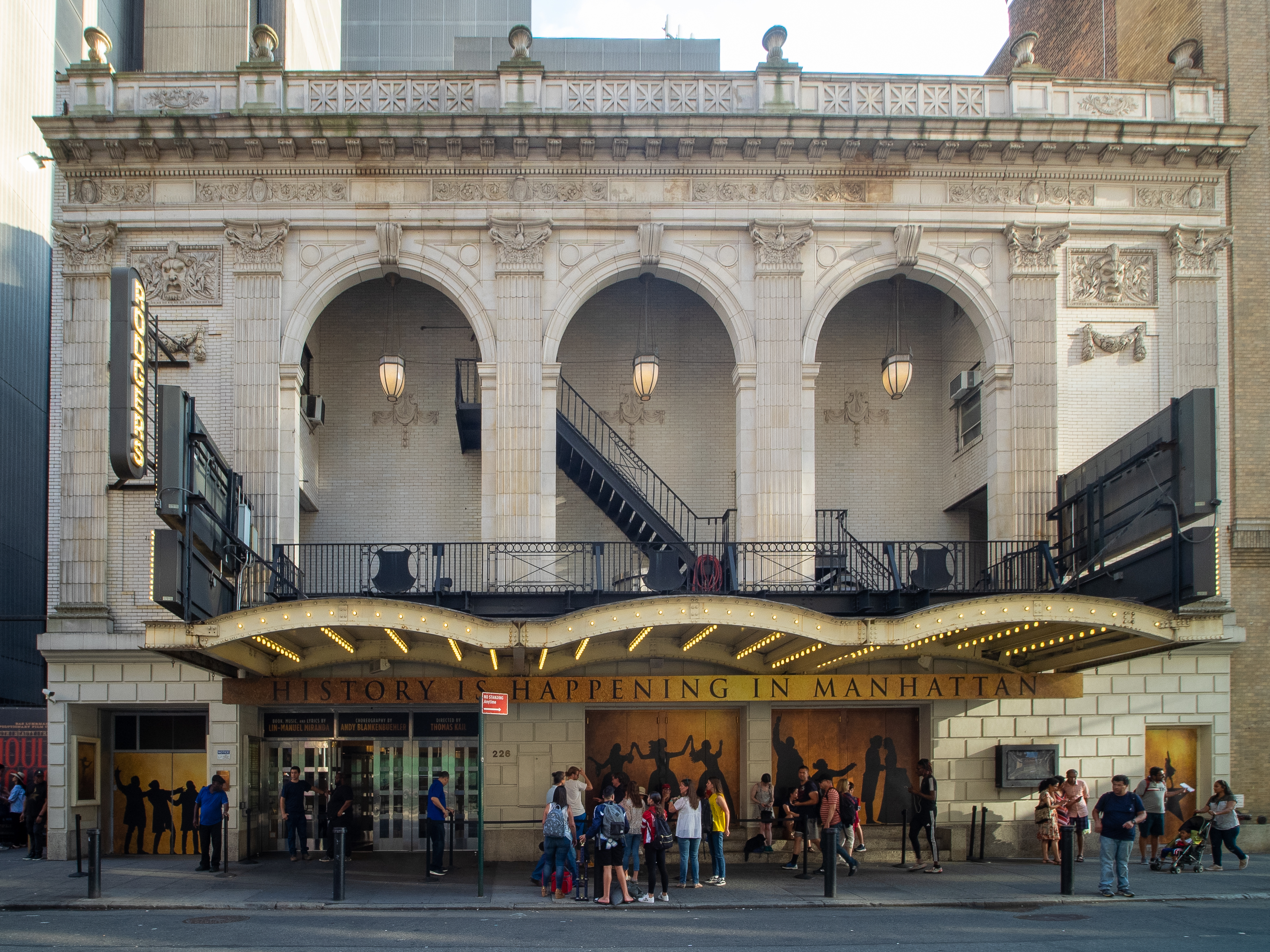 Theater District, Midtown Manhattan, NYC